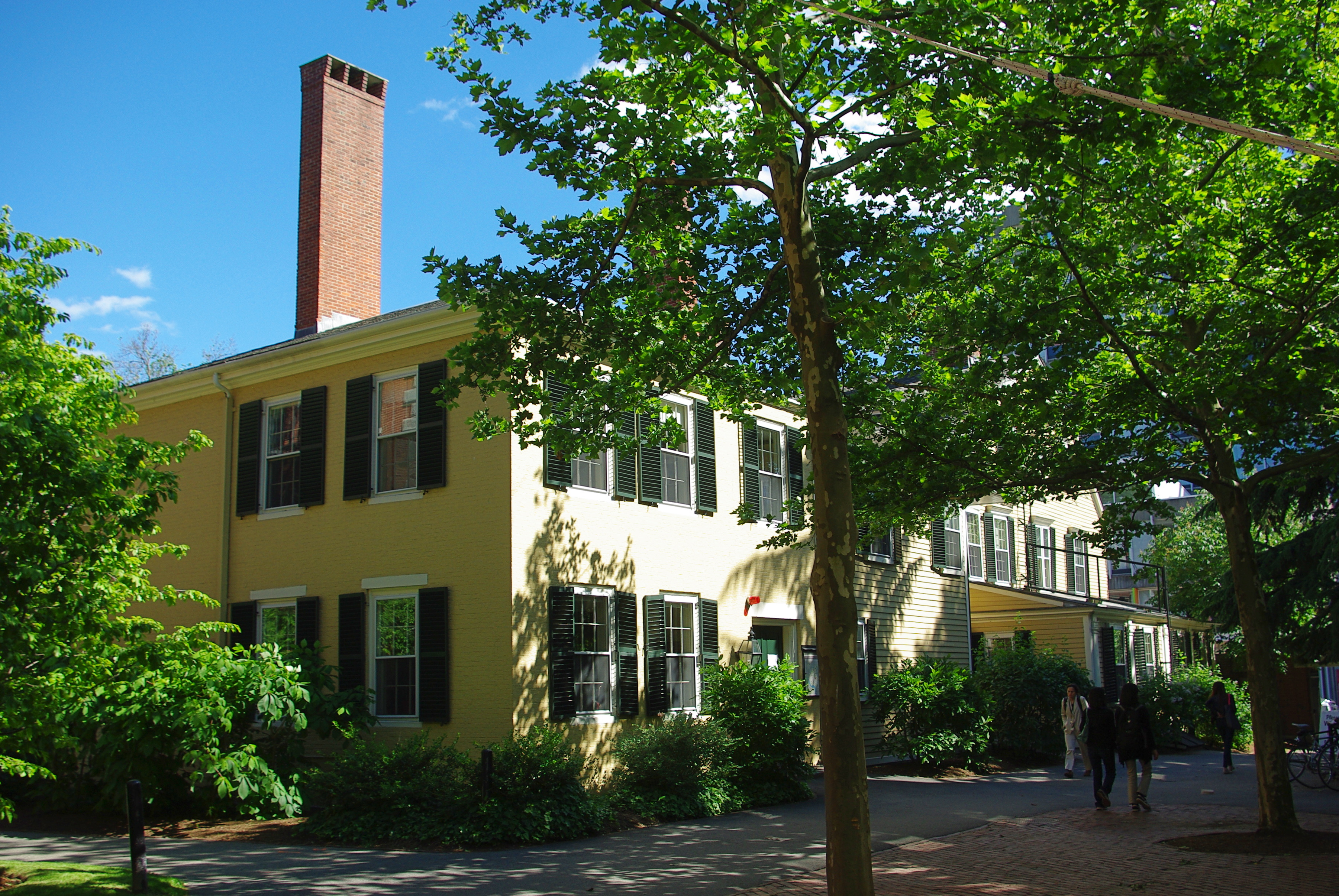 Wadsworth House, Harvard University